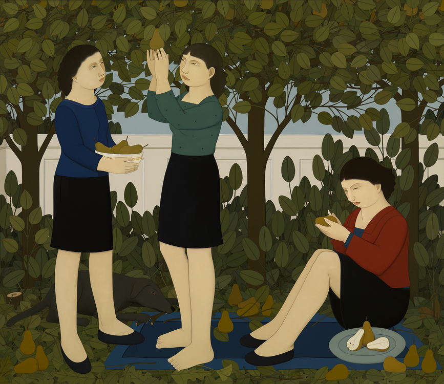 Photograph of an oil painting by Andrew Stevovich, In the Garden, 2006-2007 62" x 72" Private Collection